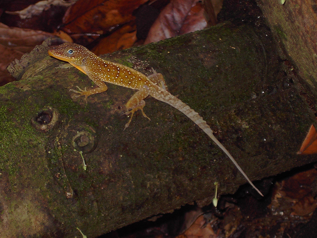 Male endemic anole at Palm Tree House, Woodford Hill, Dominica, W.I.